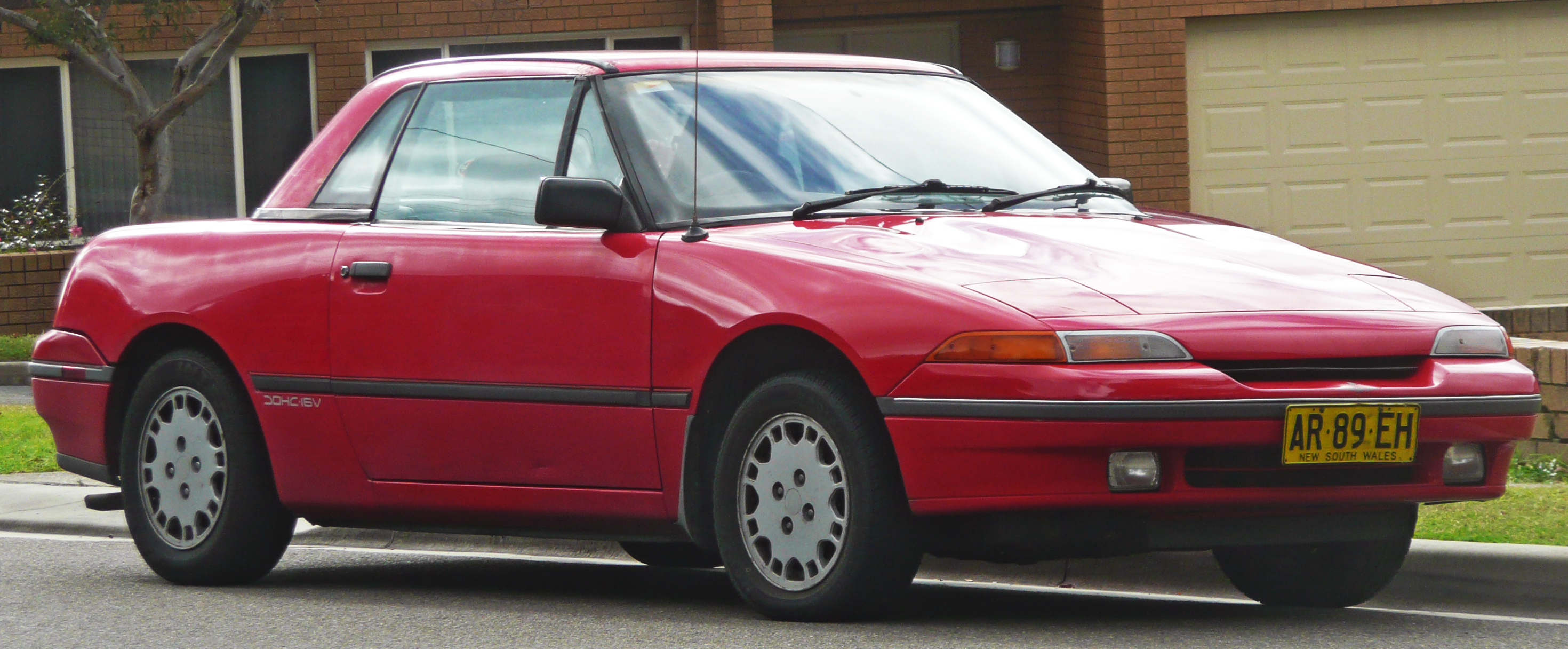 1990 Ford Capri (SA) convertible. This example is fitted with the optional removable hardtop roof. Photographed in Cronulla, New South Wales, Australia.